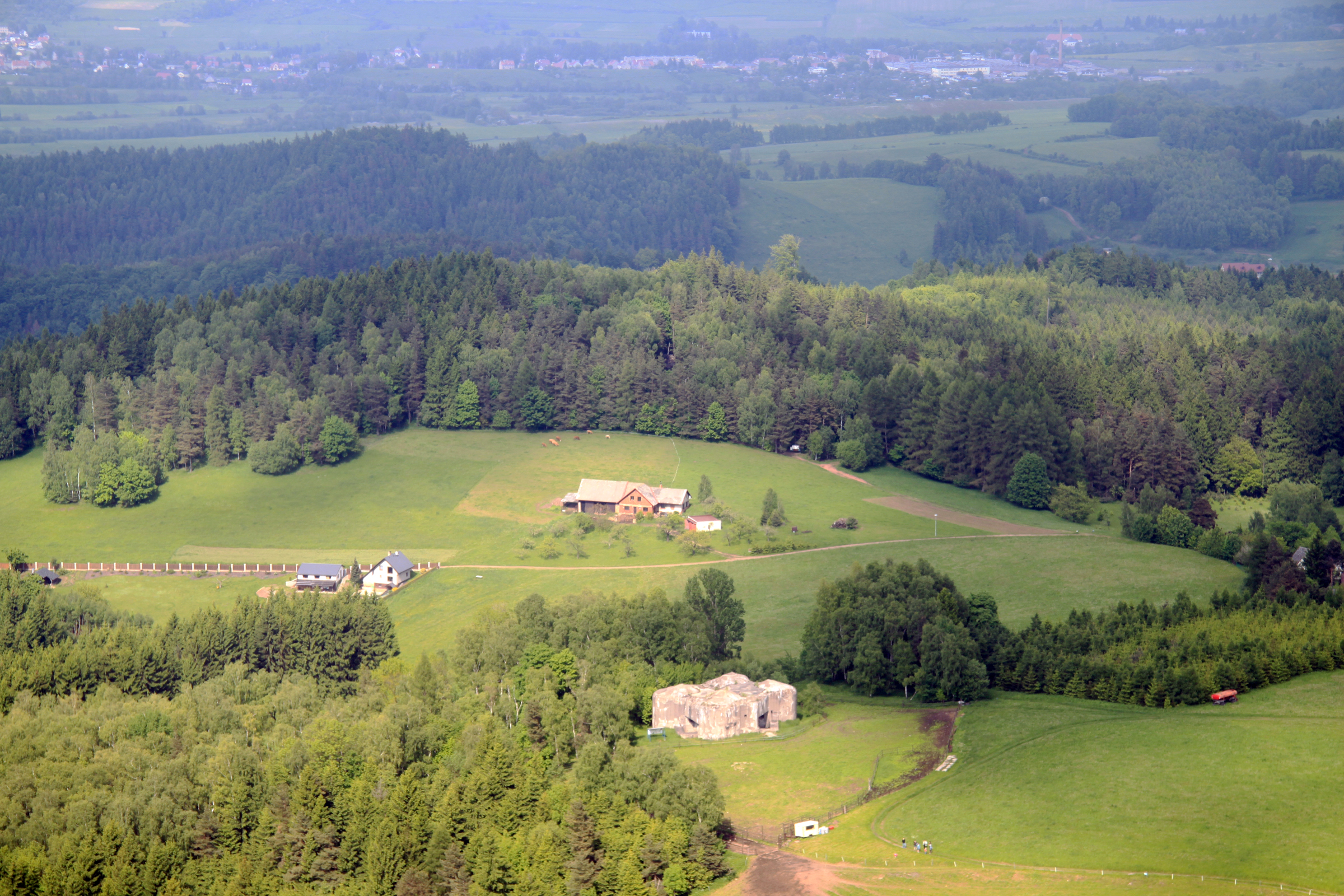 One of concrete fortress of Czechoslovak border fortification before World War II near of town Náchod from air, eastern Bohemia, Czech Republic